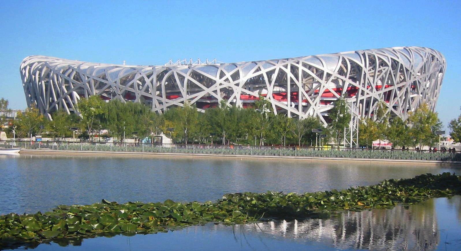 Beijing, Olympic village, stadium called "bird's nest"